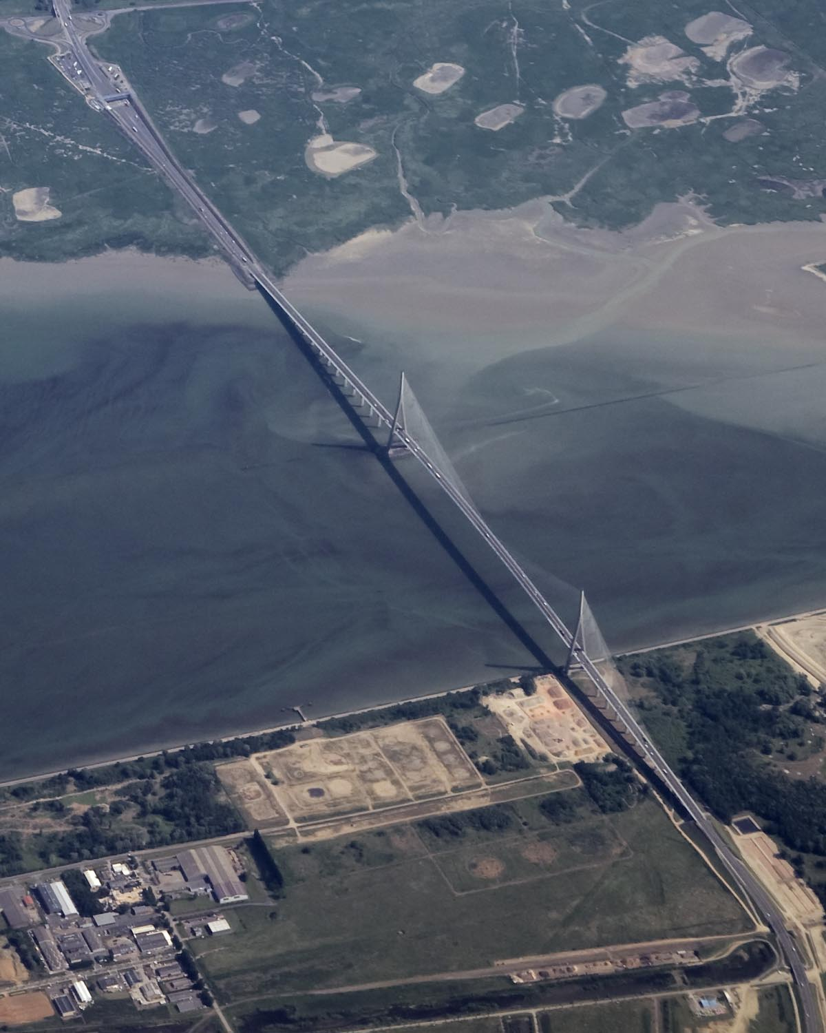 Aerial view of the pont de Normandie on the Seine estuary upriver from Le Havre.